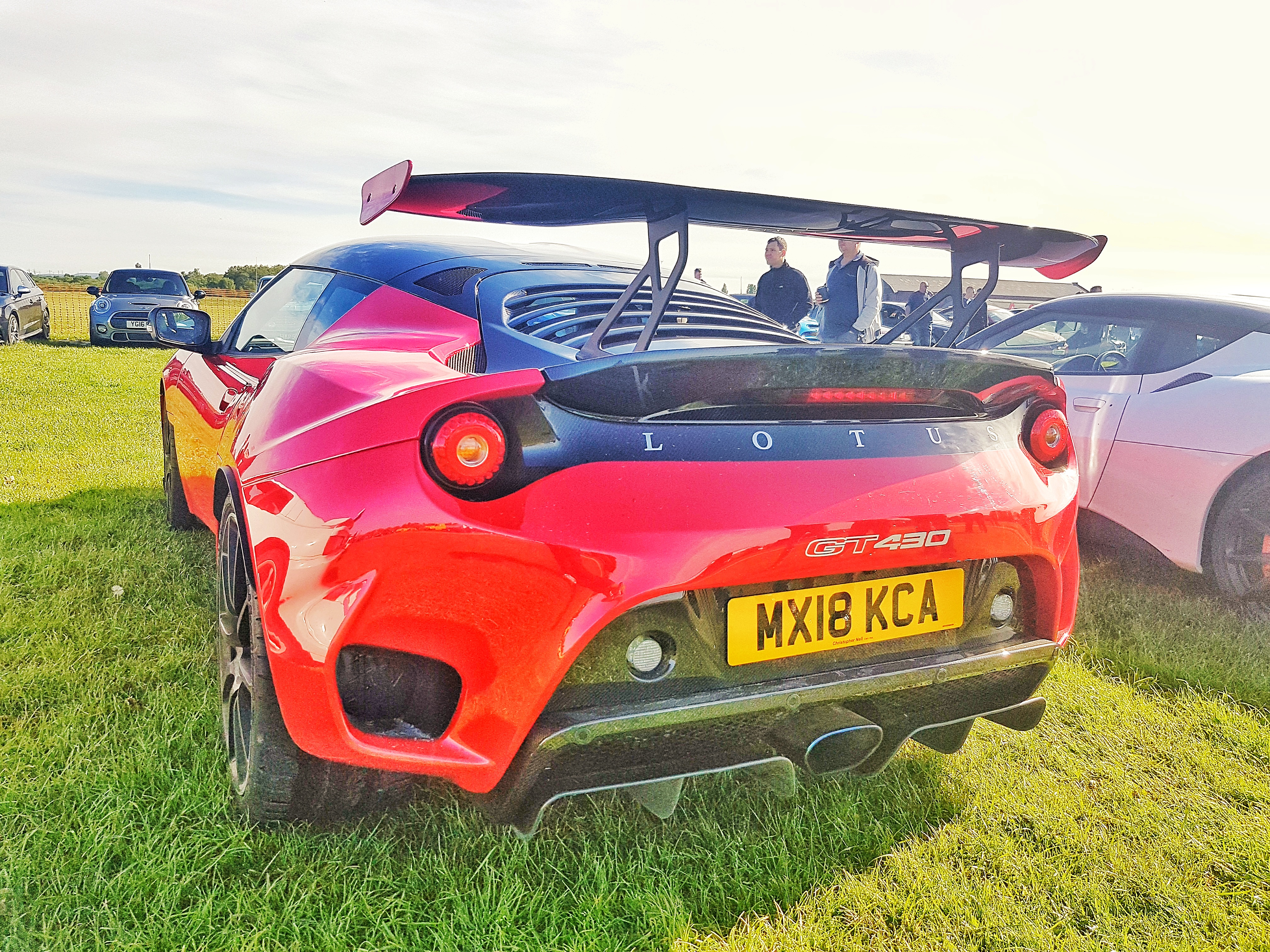 Taken at the manchester cars and coffee event at city airport